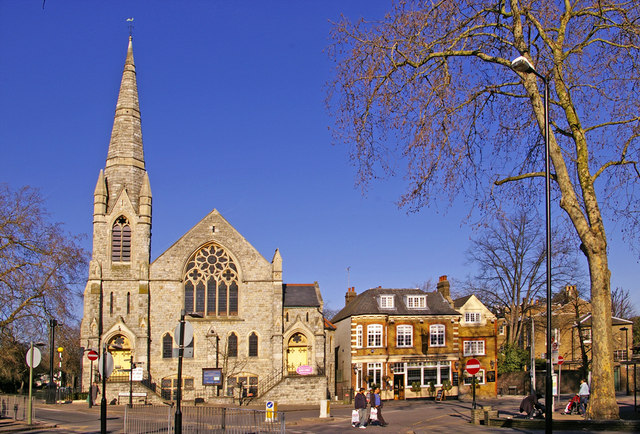 Trinity Church, Stag Public House and side of Register Office, Enfield Looking from across the road you can see Trinity Church on the left, the Stag public house and behind the tree the side of the Register Office, which is actually located in Gentleman's Row, backing on to Little Park Gardens.